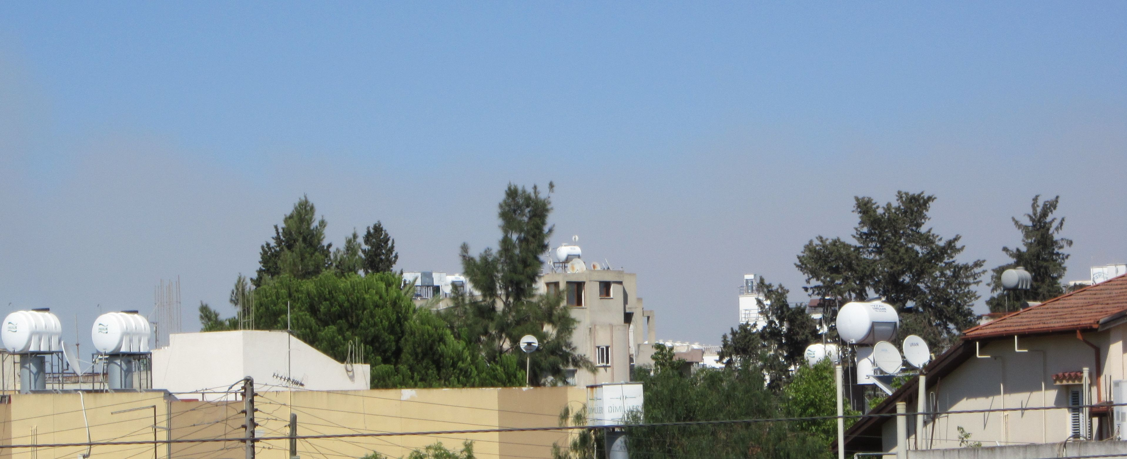 Forest fire in the Değirmenlik area of Northern Cyprus as seen from Nicosia, which burned more than 600 dönüms of forest, including some in the Kyrenia mountain range. (15 July 2012)